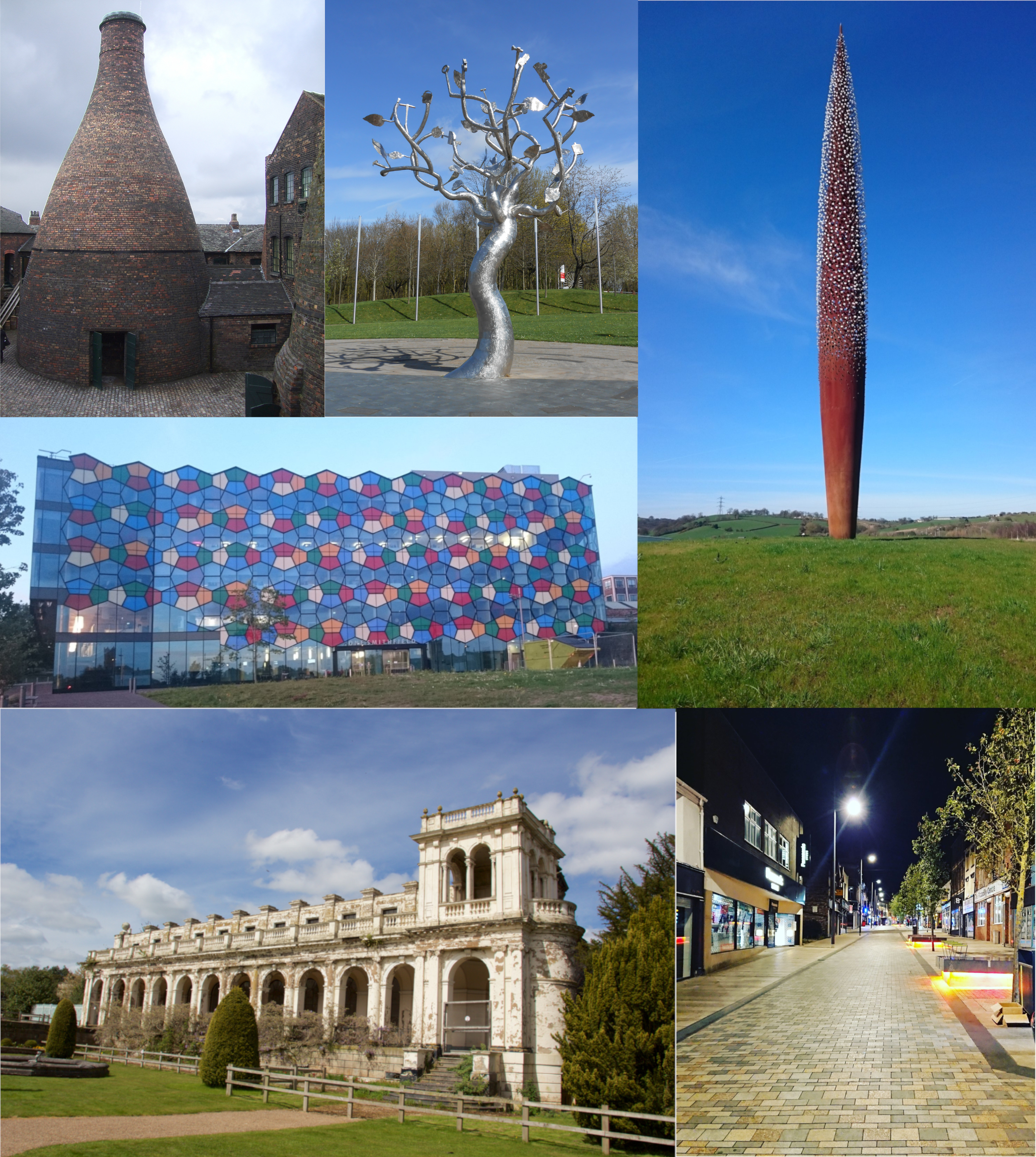 Stoke on Trent collage